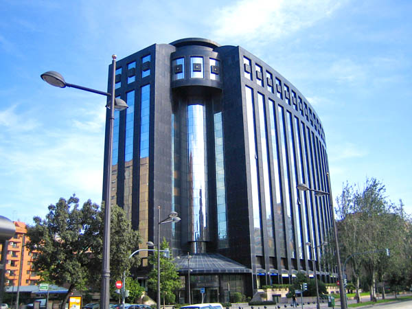 Office block in Valencia called "Edifici d'Europa" or Europe building.